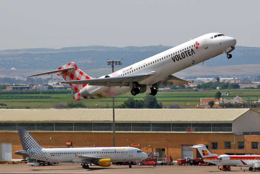 Nice take off at ruway 09 of Seville Airport. Welcome Volotea, first time at LEZL/SVQ.